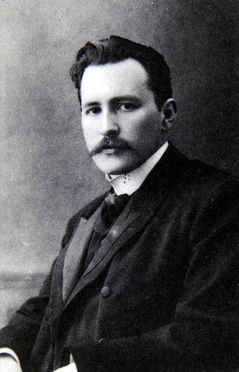 Nikolay Vissarionovich Nekrasov